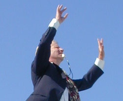 George N. Parks directing the UMass Minuteman Marching Band at McGuirk Alumni Stadium in Amherst, Massachusetts on 27 September 2003 during a football game between the University of Massachusetts and James Madison University.